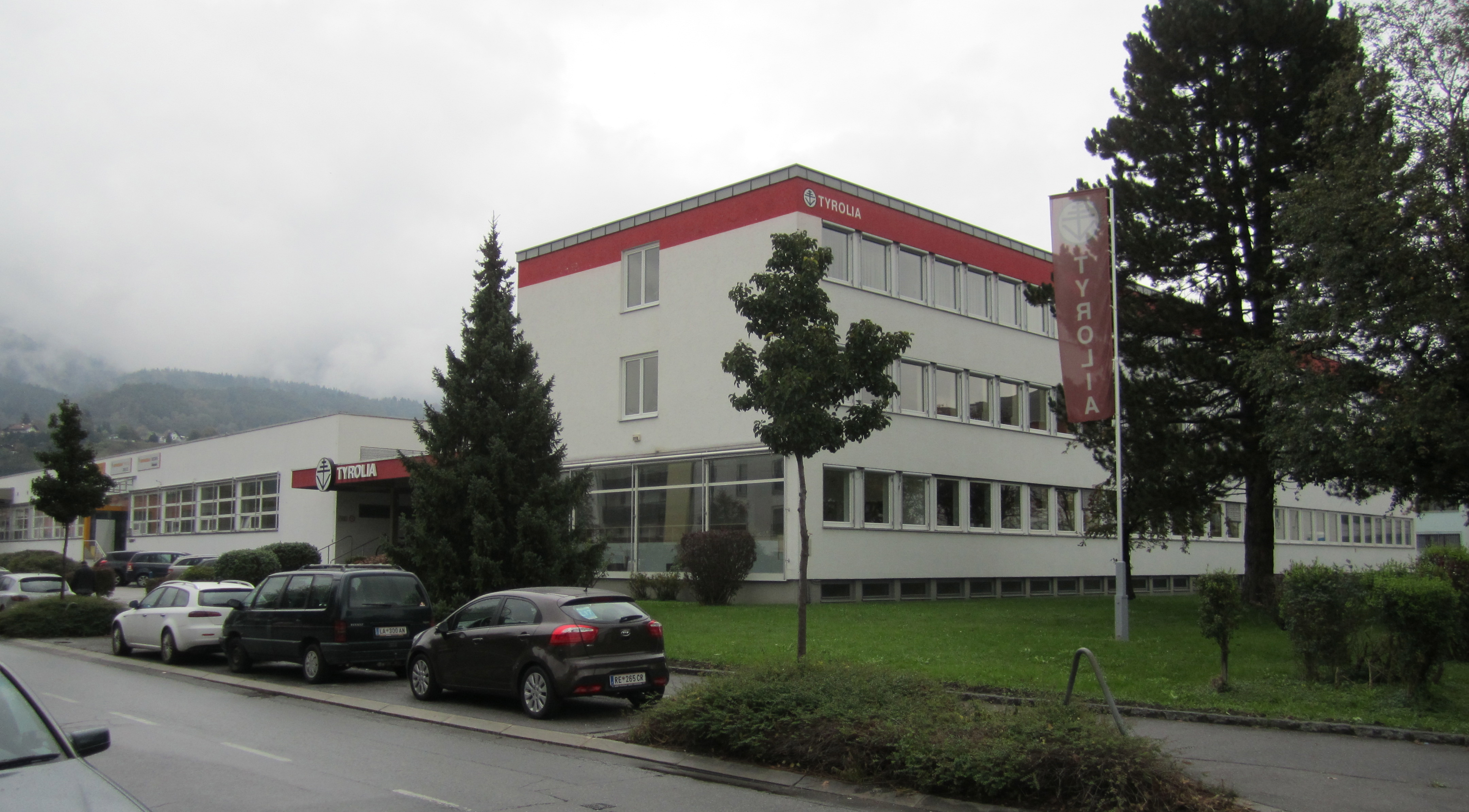 Buildings of Tyrolia publishing company in Innsbruck, Austria.